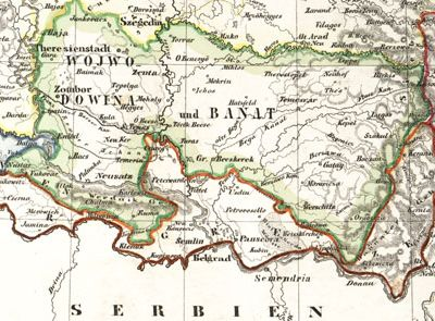 Historic map of the Austria-Hungarian Vojvodina and Banat